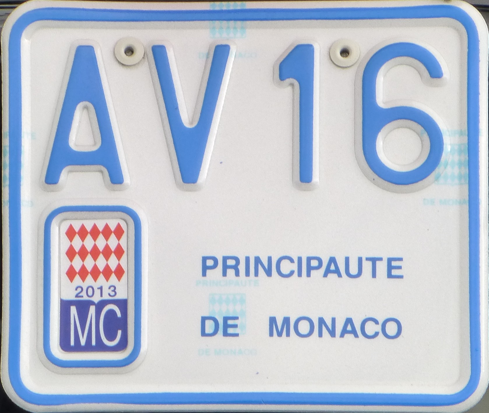 License plate for small motorcycles from Monaco (2013)